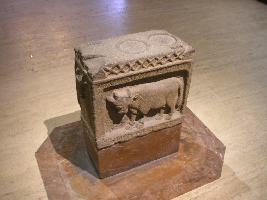 Altar (sunak) with a hole for votive offering a bull's head in relief and an Aramaean inscription. 1st century CE. Sueyda (Palestine) (Sidon?). Basalt. Inv. No. 7665.